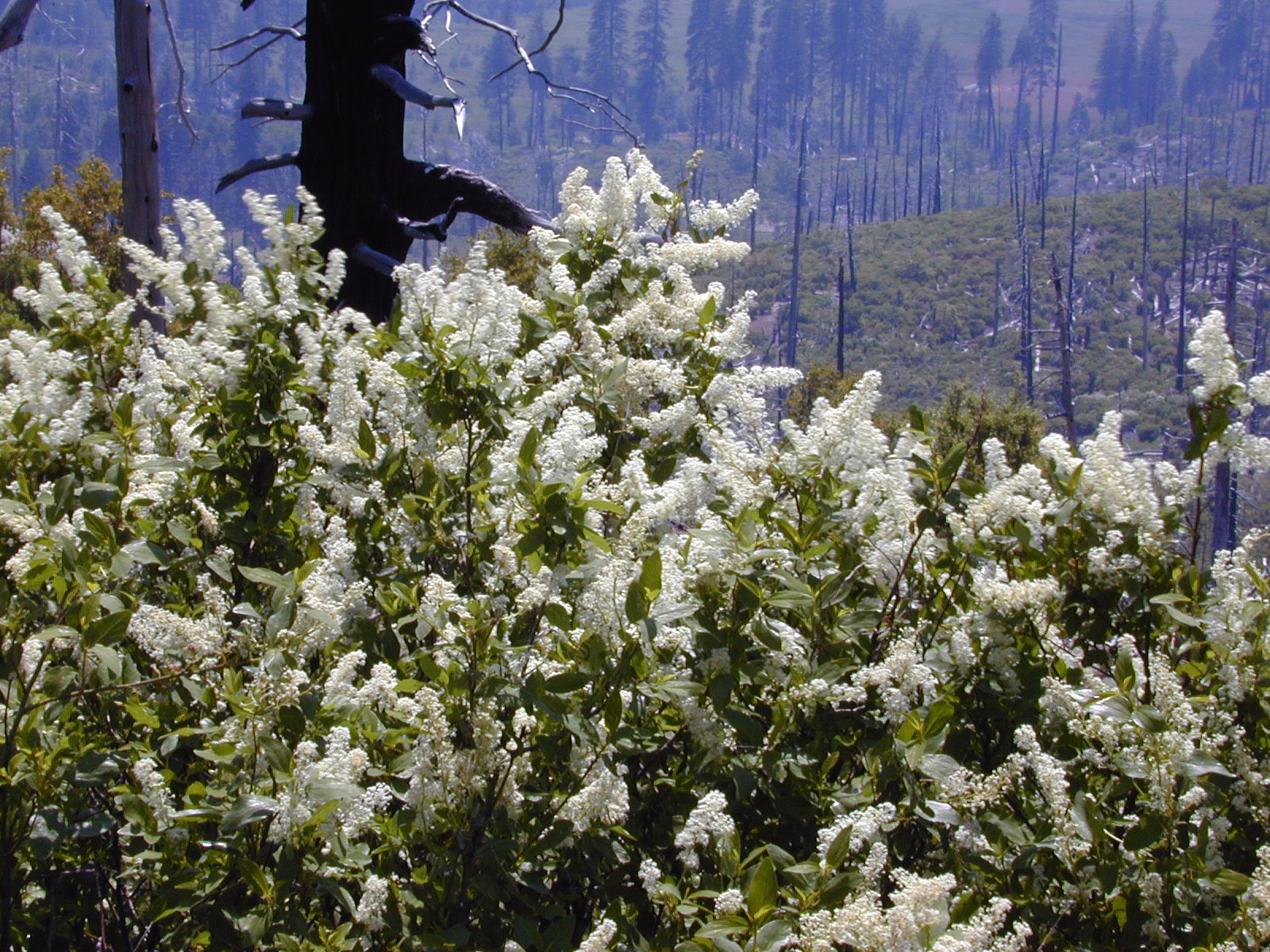 Deer Brush (Ceanothus integerrimus), Yosemite National Park. "The photo was taken from Highway 140 between Crane Flat and Yosemite valley at a parking lot at a trailhead (El Capitan trail?). I think that's Big Meadow off in the distance. The roadside was loaded with these lilacs as well as lots of lupine and other flowers."